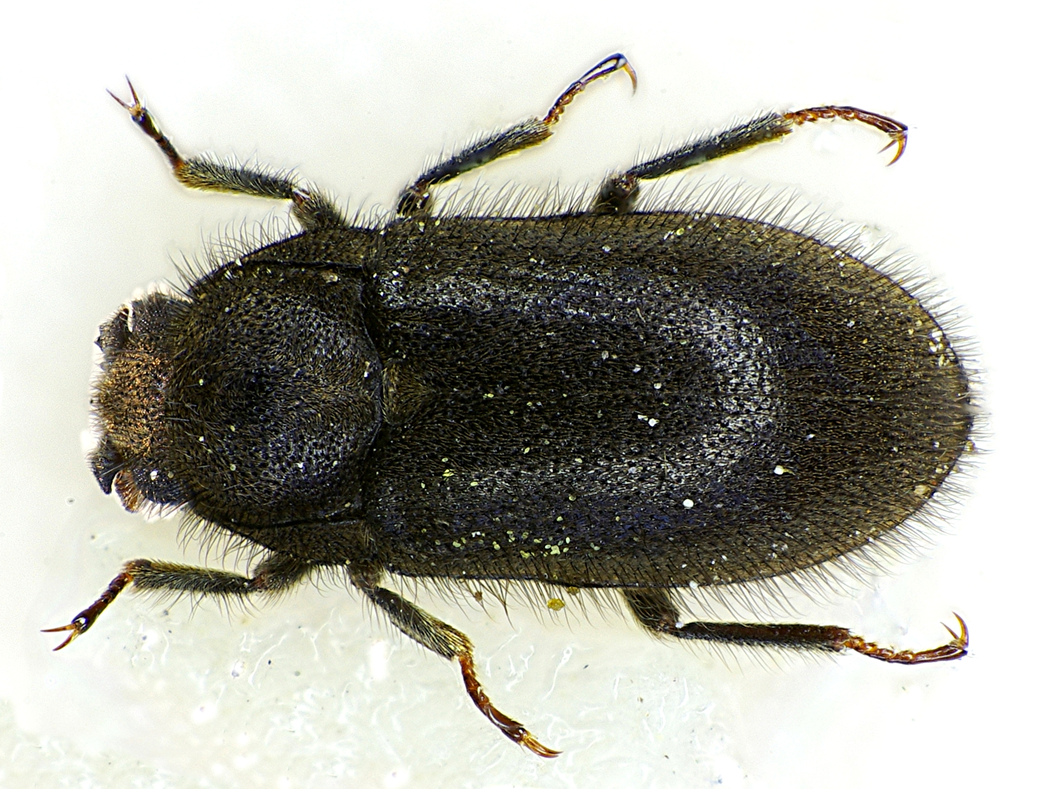 Dryops ernesti